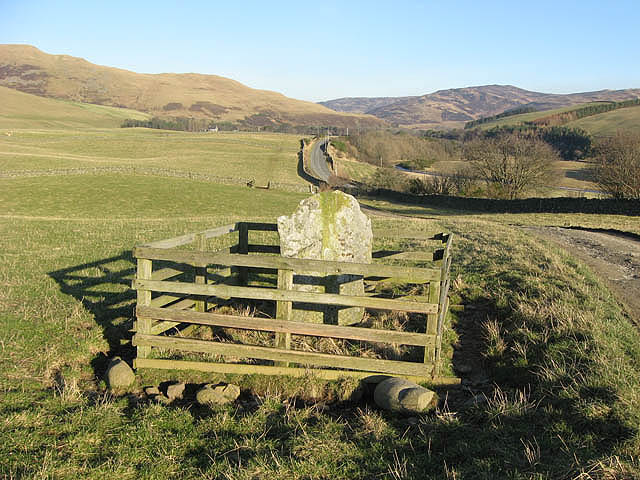 The Yarrow Stone This slab of whinstone inside a timber fence, was unearthed by a ploughman almost 200 years ago when bones were found underneath. This early Christian stone which has a Latin text, commemorates the burial site of two princes, Nudos and Dumnogenos, sons of Liberalis.